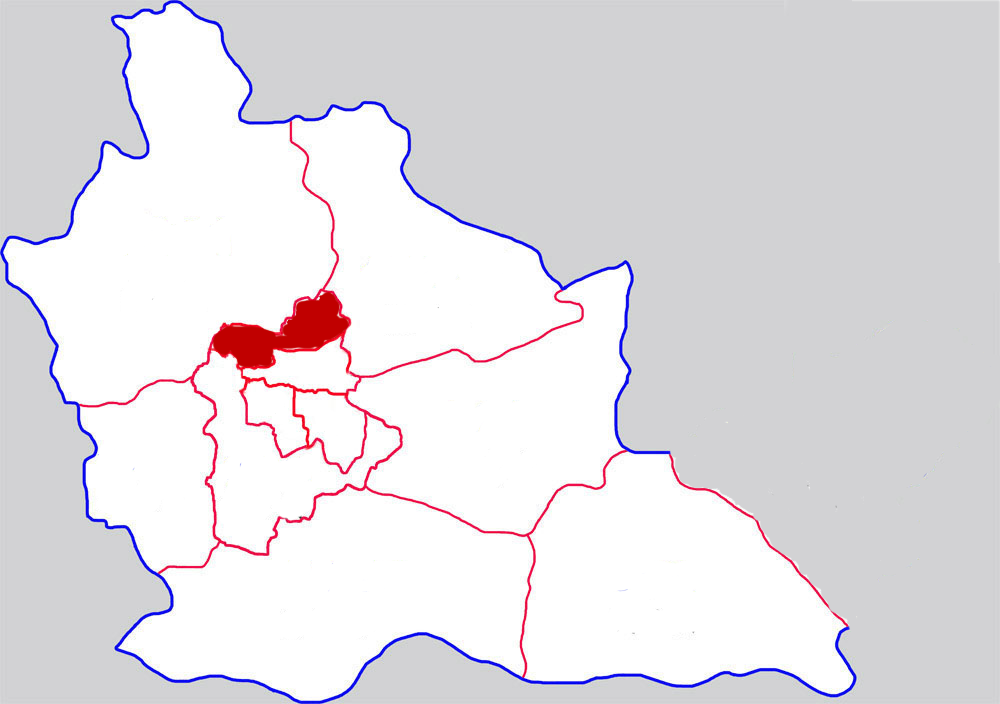 Location of Fengquan district in Xinxiang city, China